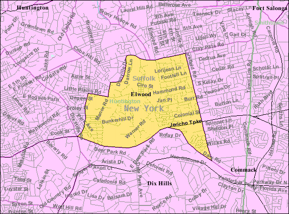 U.S. Census 2000 reference map for Elwood